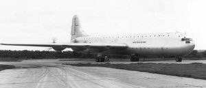 Convair XC-99 transport aircraft